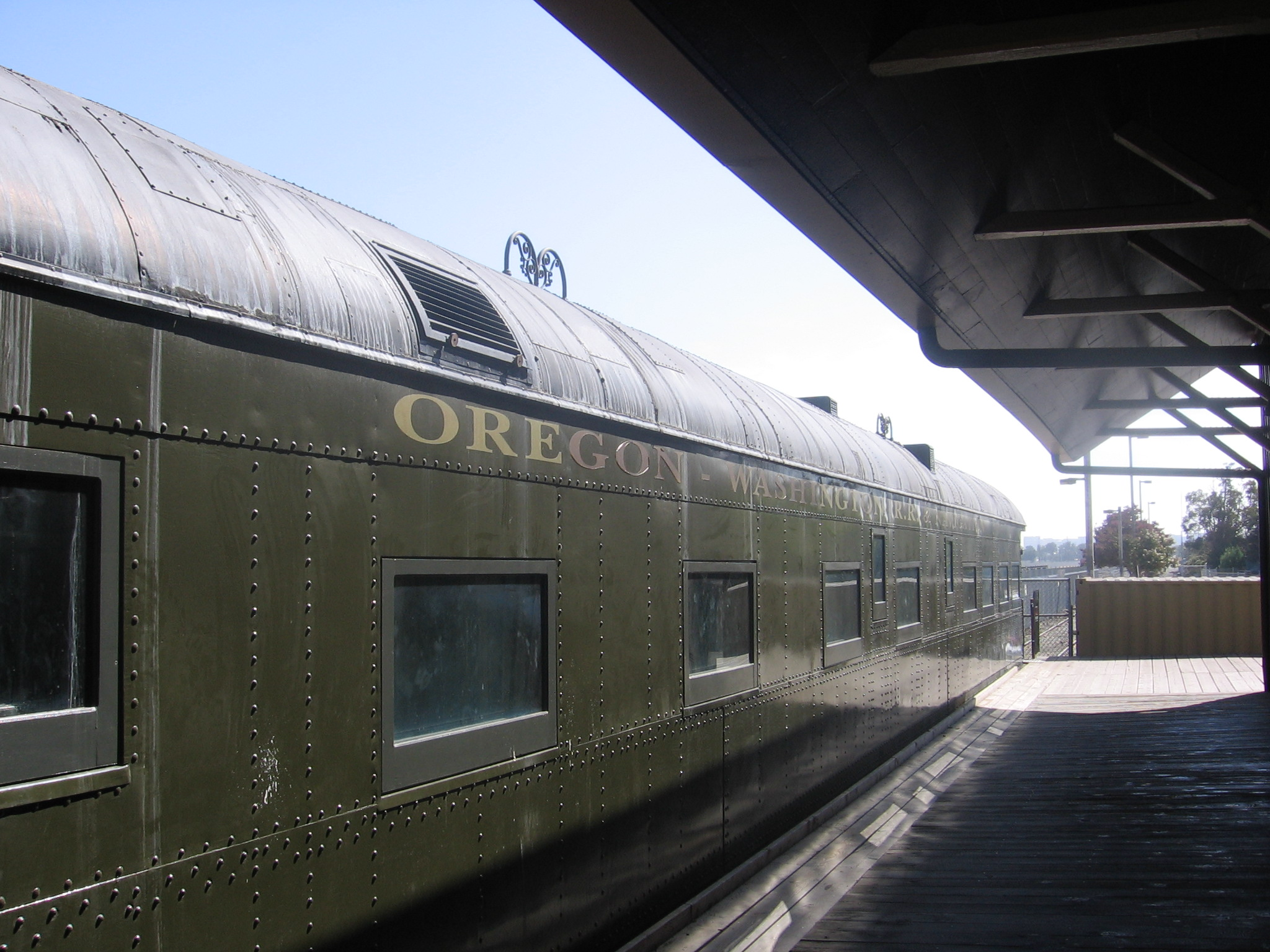 Oregon-Washington Railroad & Navigation Company car #84 was originally built in 1912 as car #496 (SBHRS page has further info). It is displayed here at the South Bay Historical Railroad Society in the Santa Clara Station, Santa Clara, California, USA.